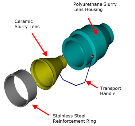 Diagram showing the parts of the Mark IV slurry lens of a Jameson Cell.